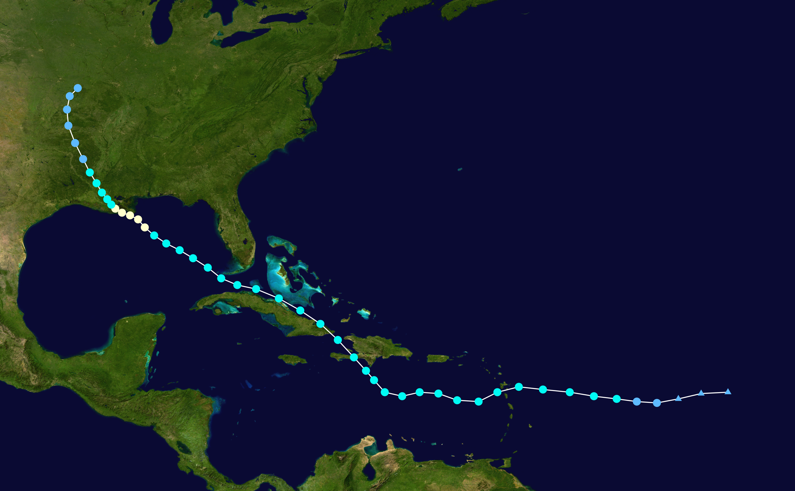 Track map of Hurricane Isaac of the 2012 Atlantic hurricane season. The points show the location of the storm at 6-hour intervals. The colour represents the storm's maximum sustained wind speeds as classified in the Saffir–Simpson scale (see below), and the shape of the data points represent the nature of the storm, according to the legend below. Saffir–Simpson scale Tropical depression≤38 mph≤62 km/h Category 3111–129 mph178–208 km/h Tropical storm39–73 mph63–118 km/h Category 4130–156 mph209–251 km/h Category 174–95 mph119–153 km/h Category 5≥157 mph≥252 km/h Category 296–110 mph154–177 km/h Unknown Storm type Tropical cyclone Subtropical cyclone Extratropical cyclone / Remnant low / Tropical disturbance / Monsoon depression